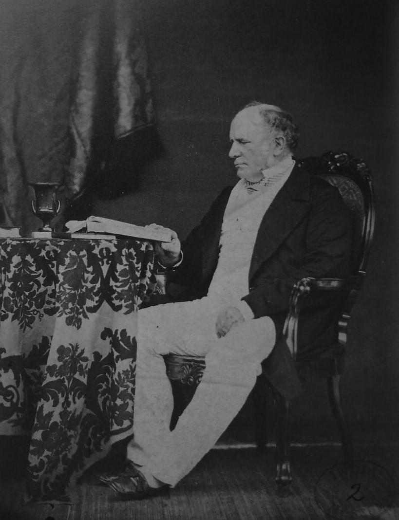 Portrait of Dr Alexander Hunter (b. 1816), Madras Medical Service. Photographer: Unknown